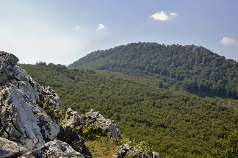 Mount Vysoká (754,3 m) from Taricové skaly (620,0 m)